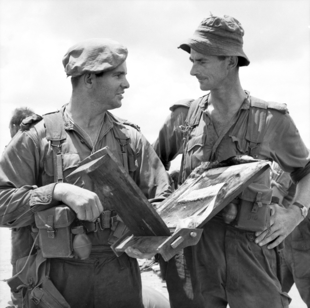 Bien Hoa, Vietnam. 1965-07. Captain Peter Arnison of Sydney, NSW, (left) and Major Ian McFarlane of Melbourne, Vic, both from the 1st Battalion, The Royal Australian Regiment (1RAR), on their return from a battalion strength operation.